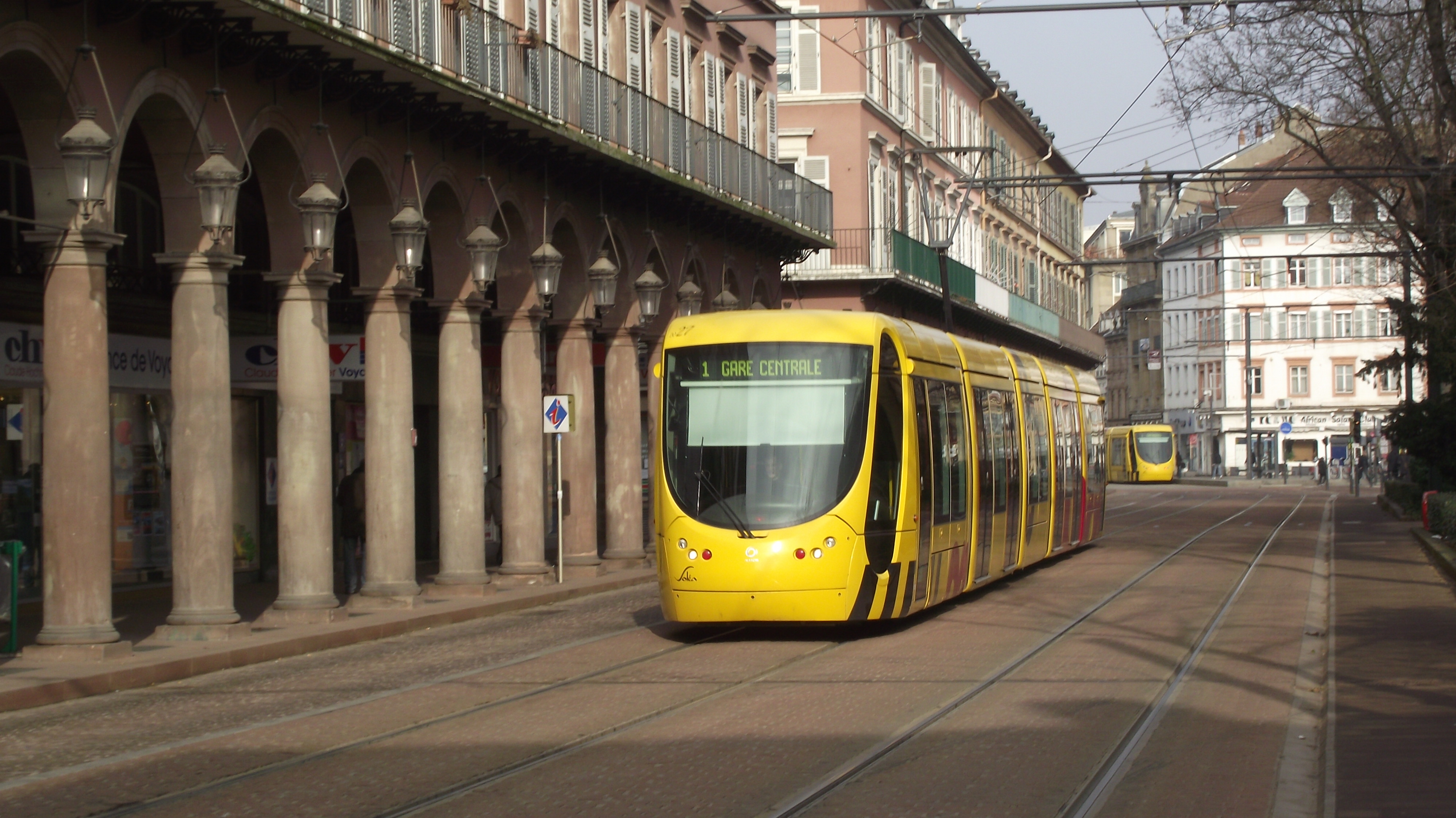 Tramline running to central station.